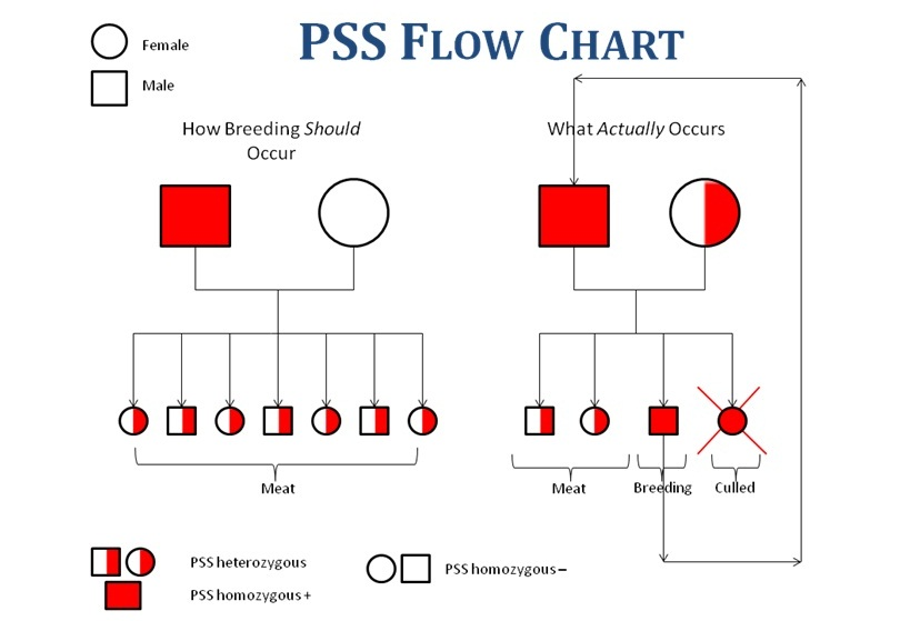 PSS_Breeding_Practices